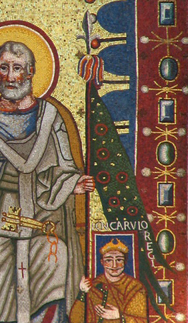 Charlemagne receiving the oriflamme from St Peter. 9th century mosaic San Giovanni church, Rome